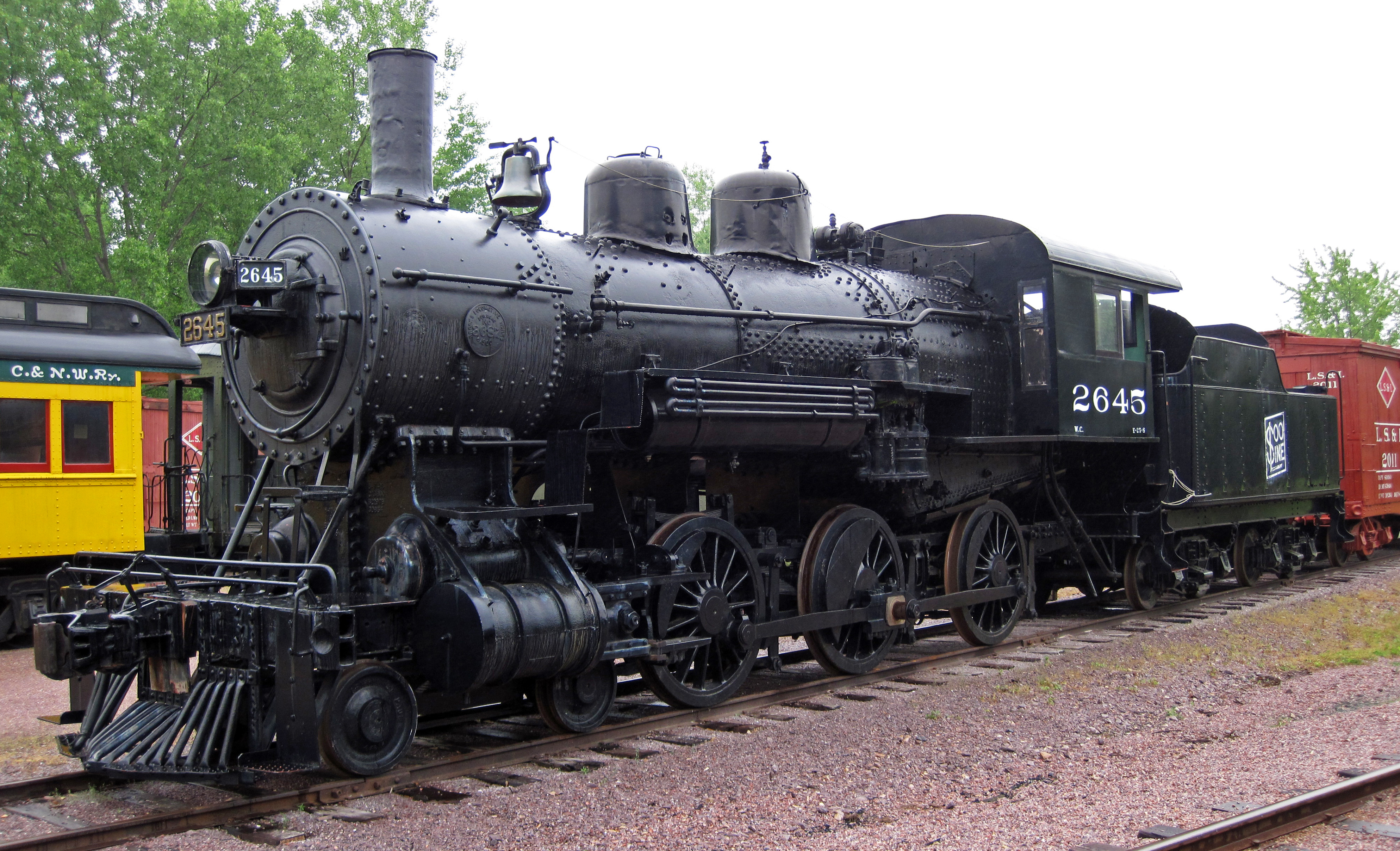 This E-25-S 4-6-0 steam locomotive was built in 1900 by Brooks Locomotive Works for use as a freight engine by the Wisconsin Central Railway. In 1909, it became a Soo Line engine. The locomotive was retired in the 1950s. It is now part of the Mid-Continent Railway Museum collection in the town of North Freedom, Wisconsin. The railroad ballast on the ground is crushed Baraboo Quartzite, which is ~1.7 billion years old (Paleoproterozoic). It comes from a nearby quarry in the Baraboo Ranges of southern Wisconsin. More info.